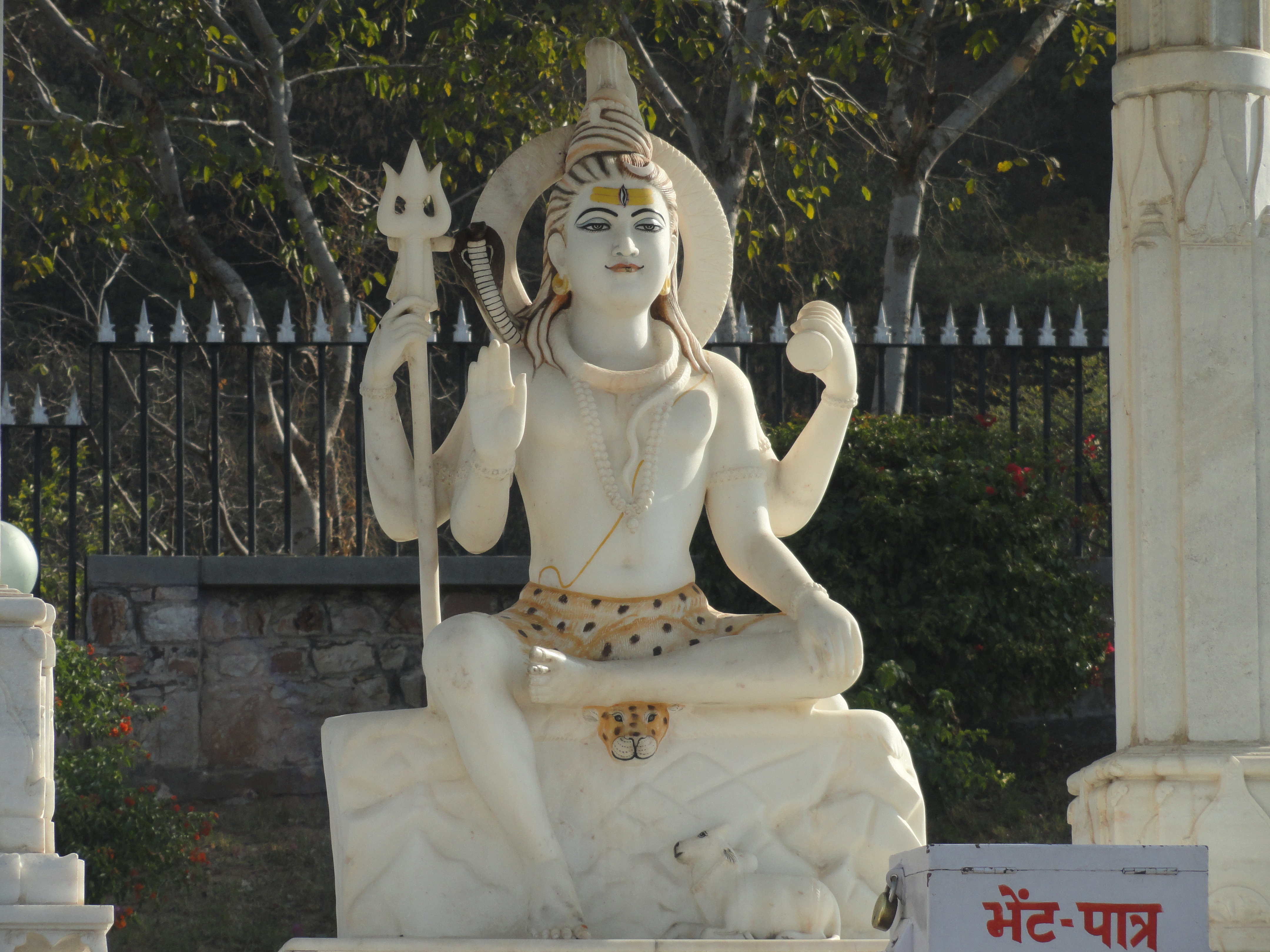 Marbel Temple of Shiva, in Jaipur